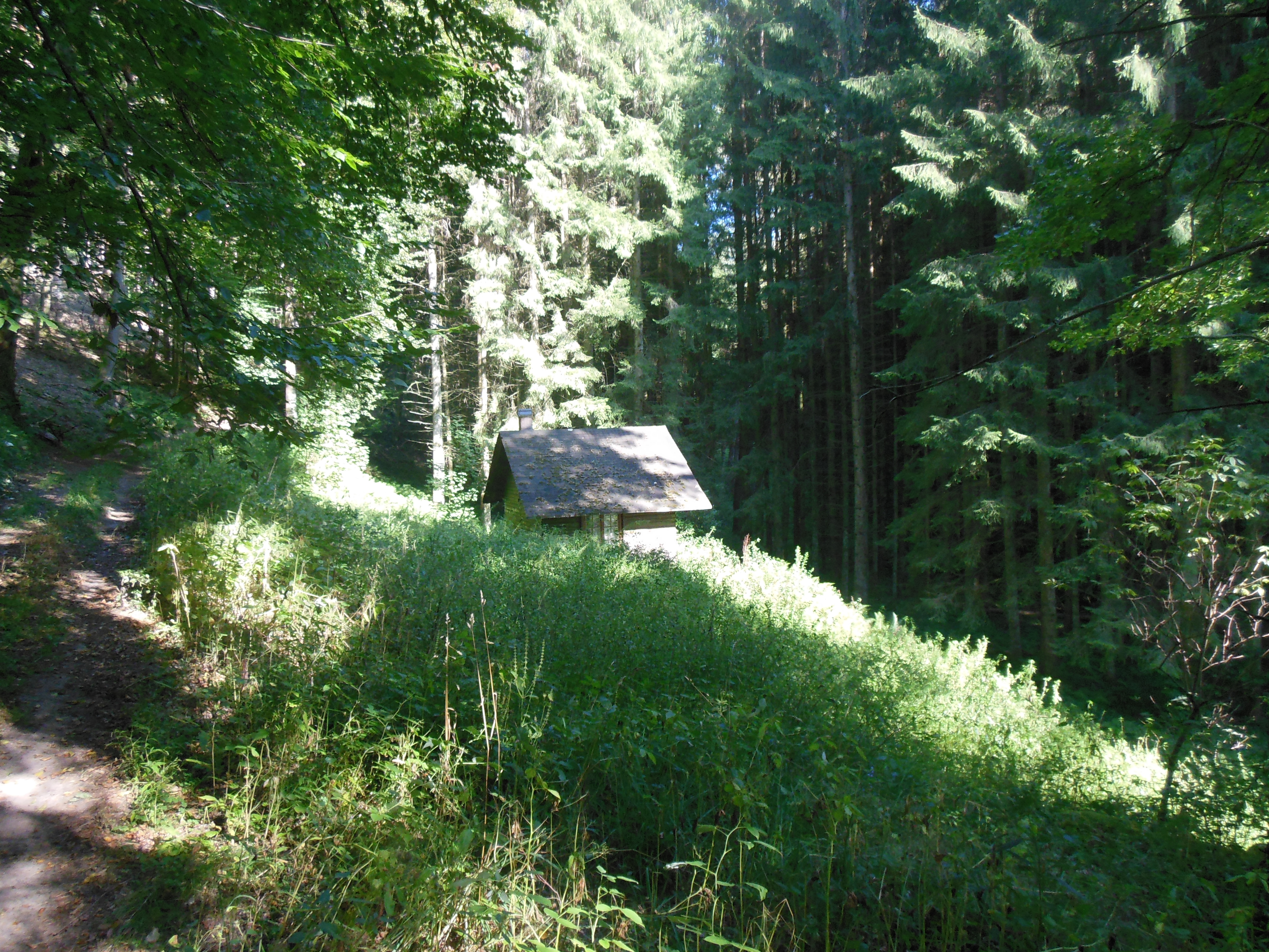 Kambach Valley in Montbronn